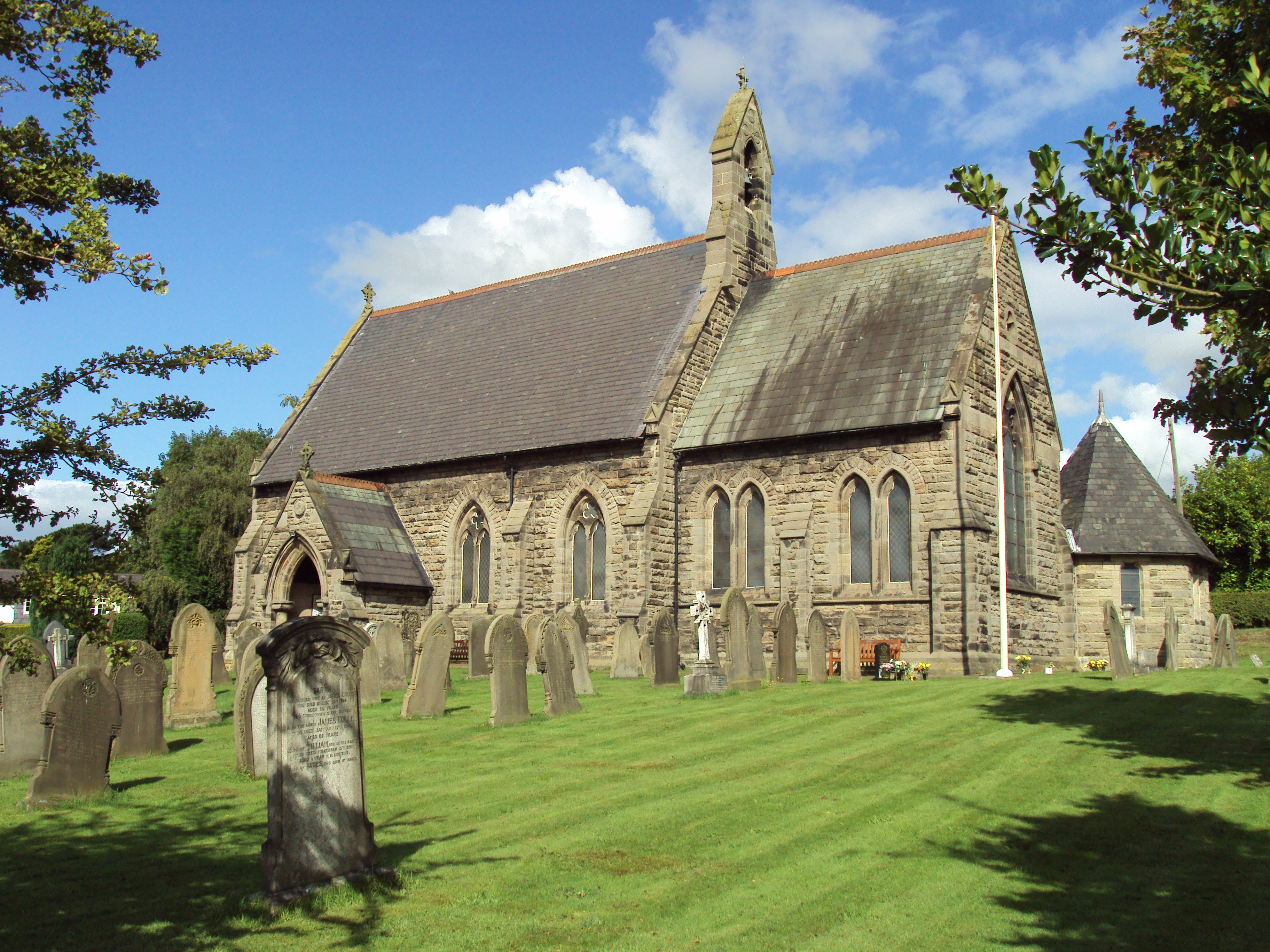 St Philip's parish church, Kelsall, Cheshire, seen from the southeast